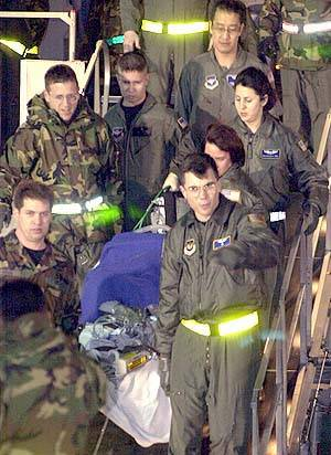 Canadian Journalist Kathleen Kenna, arriving at Ramstein AB, Germany, for medical treatment Original caption: "Members of Ramstein's 86th Aeromedical Airlift Squadron carry Canadian reporter Kathleen Kenna, injured in Afghanistan, from a C-9 Nightingale of the 75th Airlift Squadron to a waiting ambulance upon arrival at Ramstein AB, Germany, March 6. (Photo courtesy Michael Abrams, Stars and Stripes)"